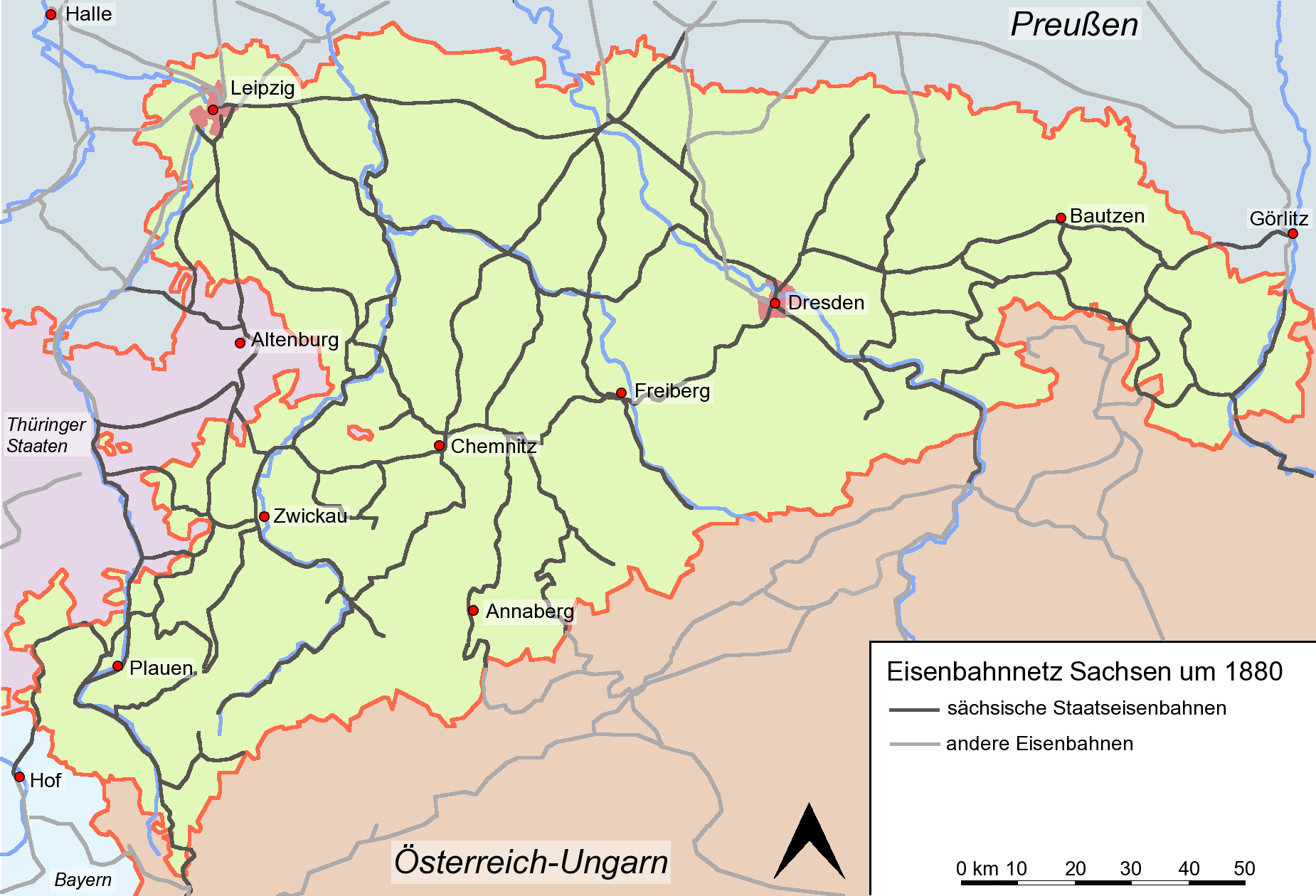 Railway network in Saxony to 1880. Railway construction to 1840 - to 1860 - to 1880